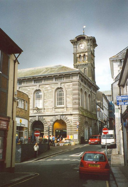 The Guildhall, Market Street, Liskeard